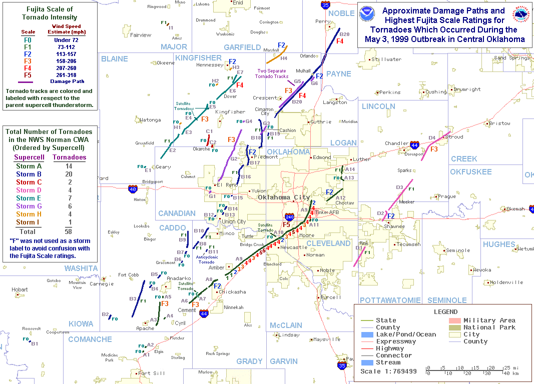 A map of the tornadoes occurring in the vicinity of Oklahoma City during the May 1999 Oklahoma tornado outbreak with F-Scale ratings.